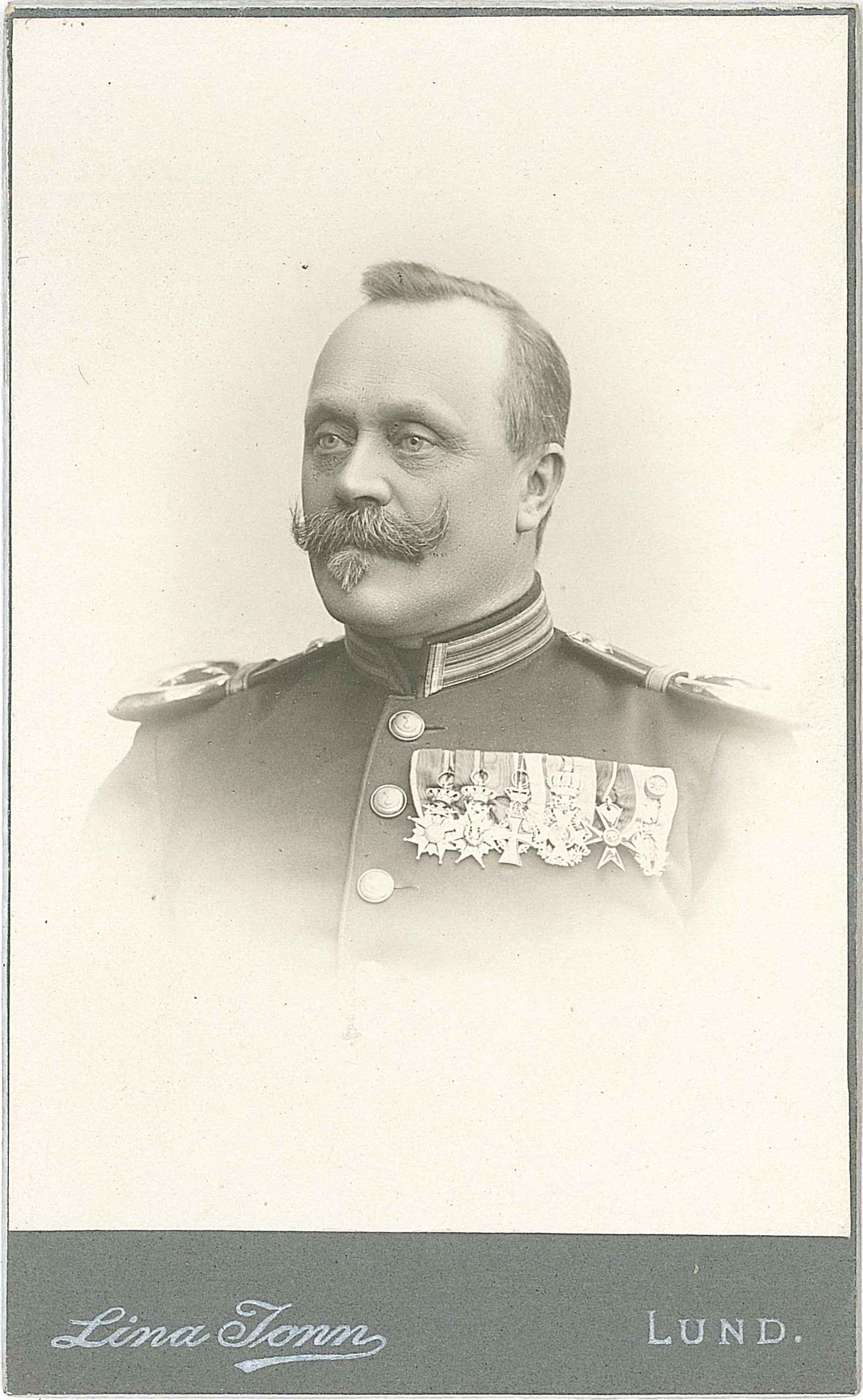 Carl Norlander (1846-1916), Swedish officer and gymnastics teacher; master of fencing at Lund University 1882-1916.